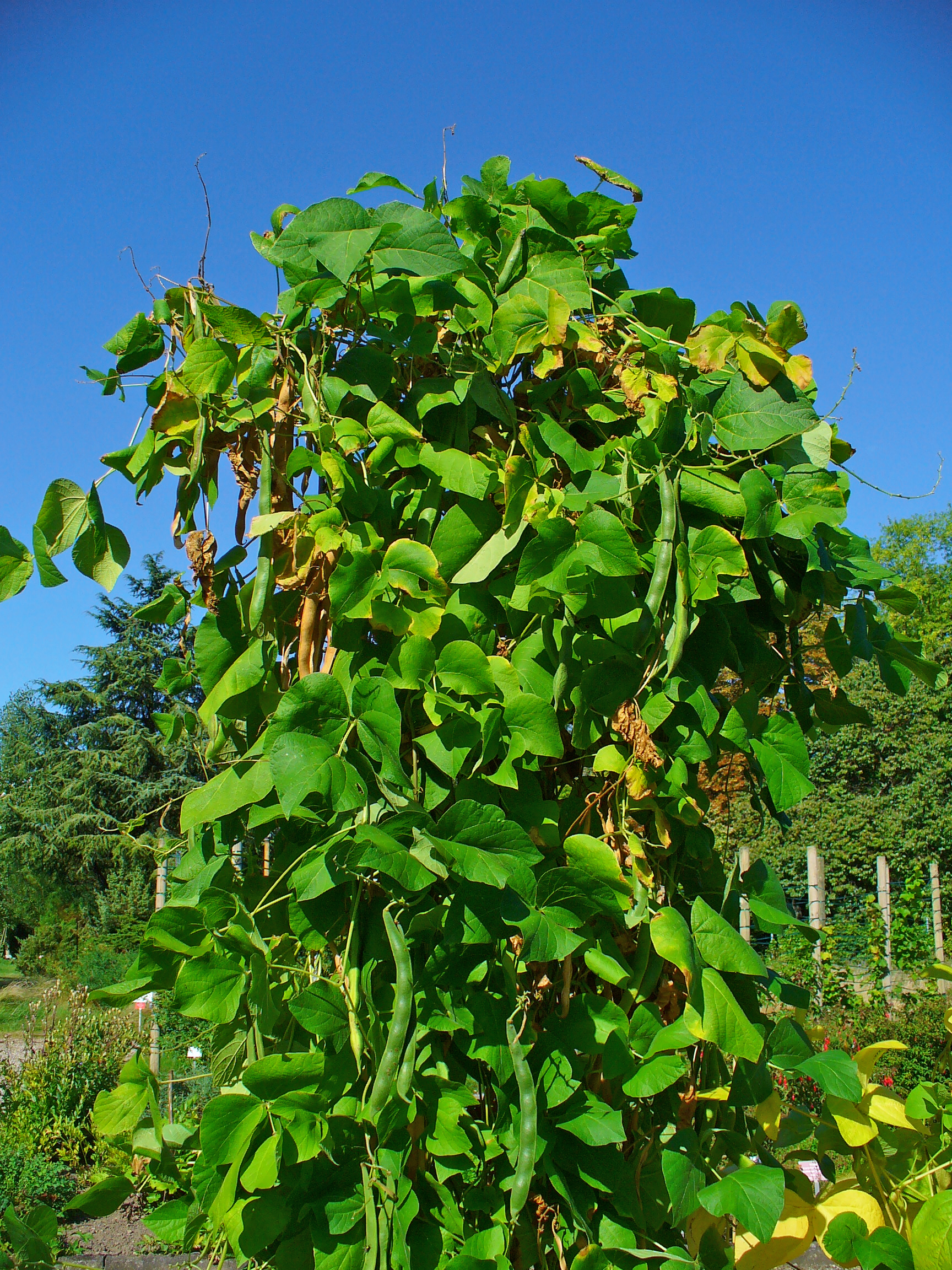 Phaseolus coccineus, Fabaceae, Runner Bean, habitus. Botanical Garden KIT, Karlsruhe, Germany.